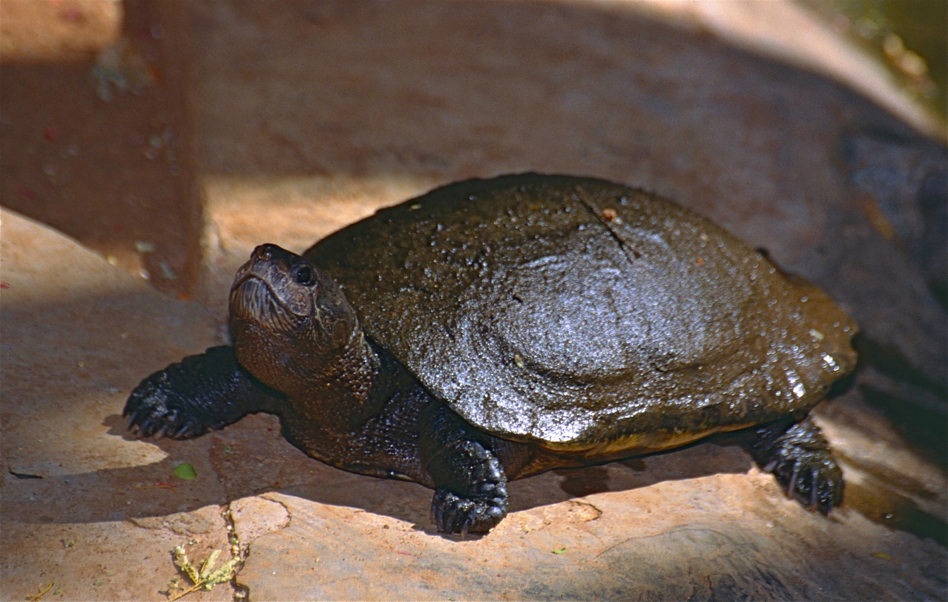 Réserve de Berenty, Amboasary Sud, MADAGASCAR Scanned Slide from 1998